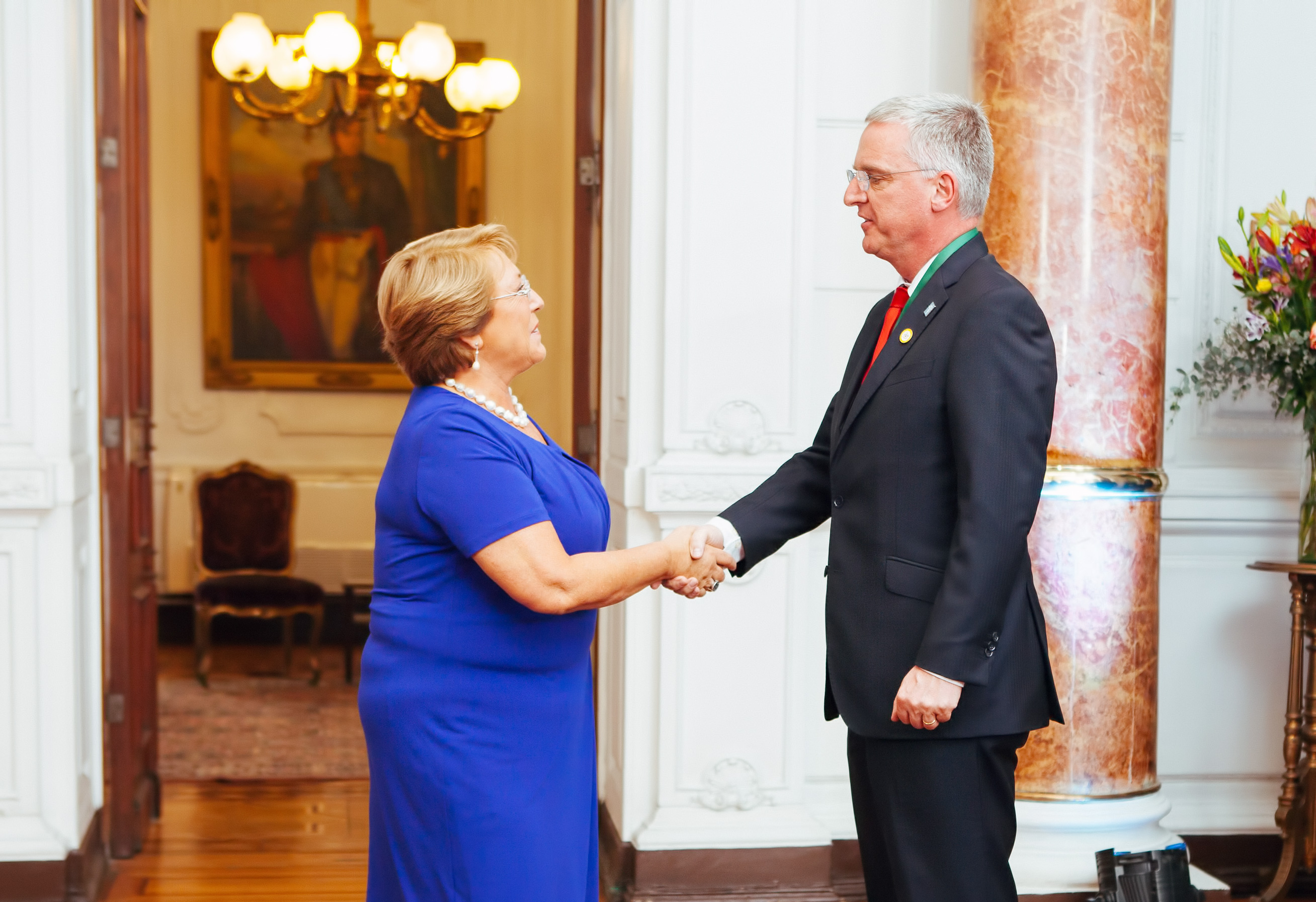 The ESO Director General, Tim de Zeeuw, together with ESO Council President Xavier Barcons, ESO Representative in Chile Fernando Comerón, and Director of Operations Andreas Kaufer met Michelle Bachelet, the incoming President of Chile, on 10 March 2014, the day before her inauguration. The delegation passed on their congratulations, and looked forward to a fruitful and productive collaboration between ESO and its host nation. In this picture incoming President Michelle Bachelet shakes hands with the ESO Director General, Tim de Zeeuw.